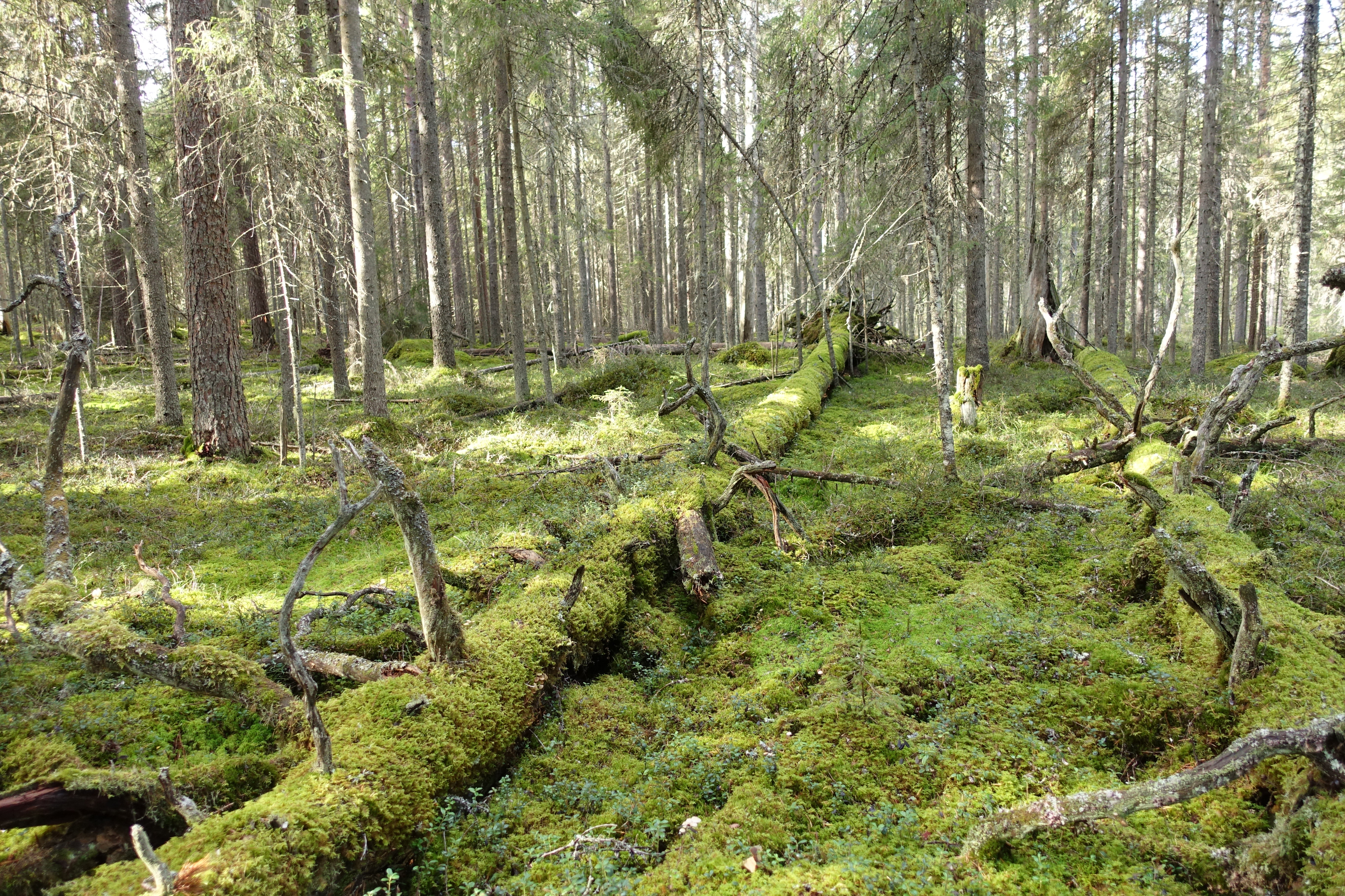 Moss covered soil and tree in Pyhä-Häkki National Park, Saarijärvi, Finland.